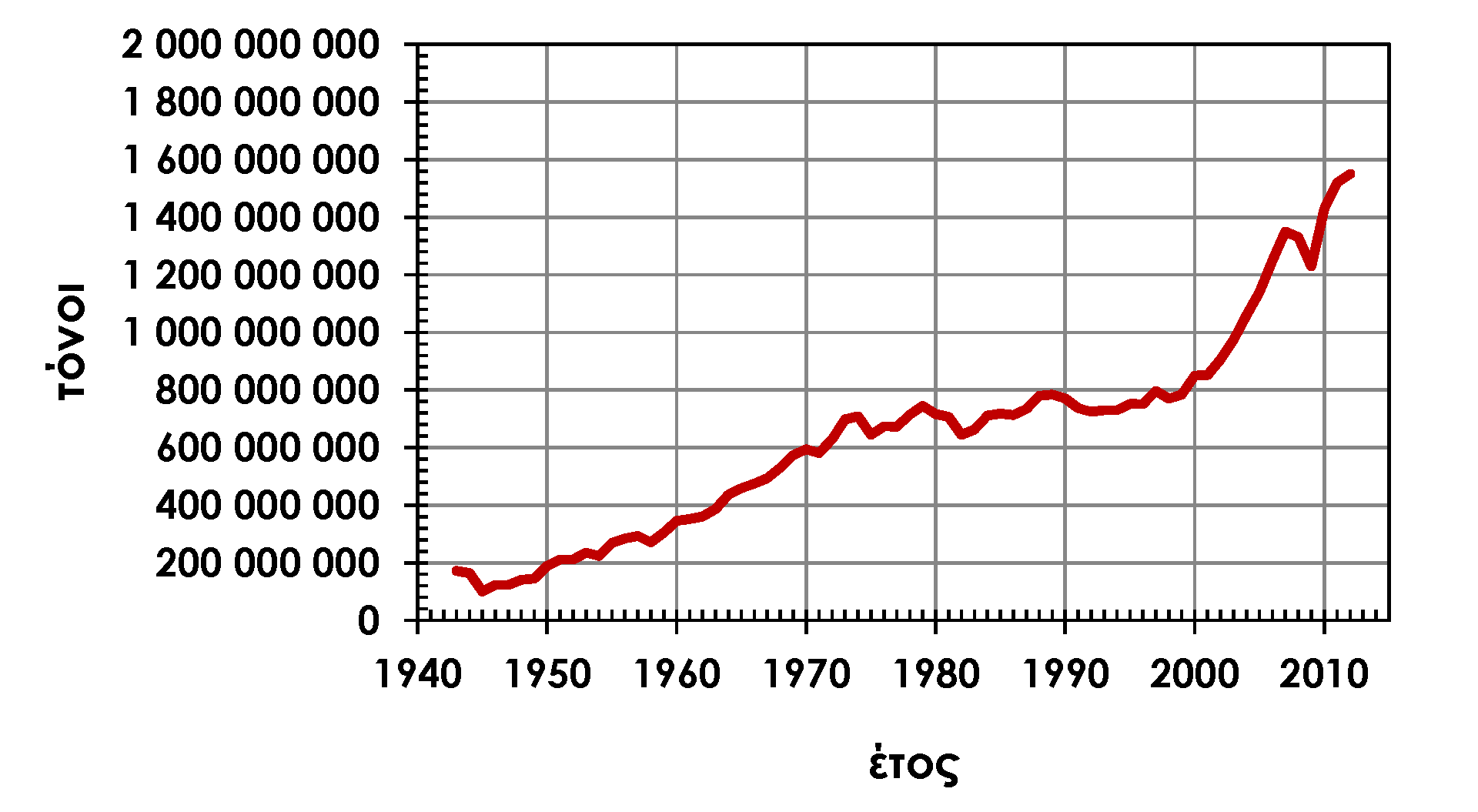 World steel production 1943 - 2012. Data from US Geological Survey (accessed on Feb. 24, 2015).